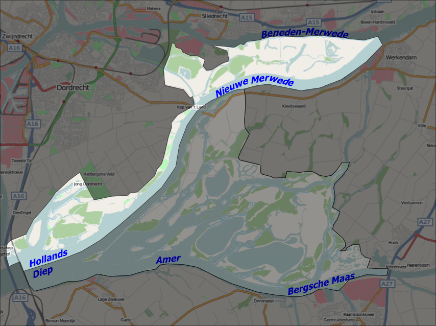 Map of the Holland part of Dutch National Park De Biesbosch. The background map is taken from . The boundary was drawn by me using landmarks in the OSM map that the boundary follows (water, roads etc).